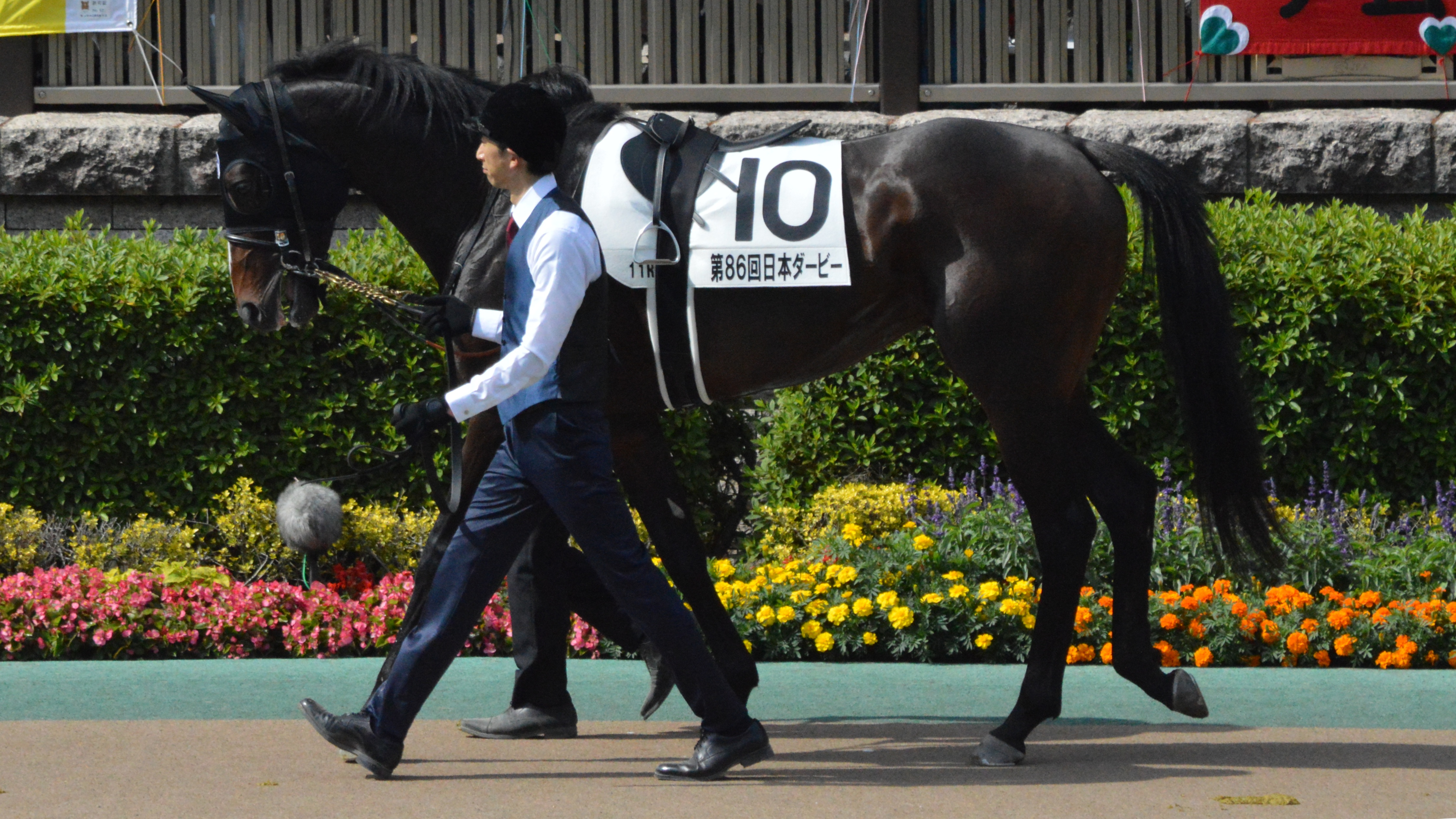 Japanese race horse Courageux Guerrier at Tokyo racecourse. Tokyo (JPN) 26 May 2019Tokyo Yushun (Japanese Derby) (Grade 1) (3yo Colts & Fillies) (Turf) 1m4f Firm RankHorse NameOddsAgeWgtJockeyTrainer1stRoger Barows (JPN)92/1C39-0Suguru HamanakaKatsuhiko Sumii6thCourageux Guerrier (JPN)65/1C39-0Kosei MiuraYasutoshi IkeeOthers are omitted. (18 horses entered in a race.)